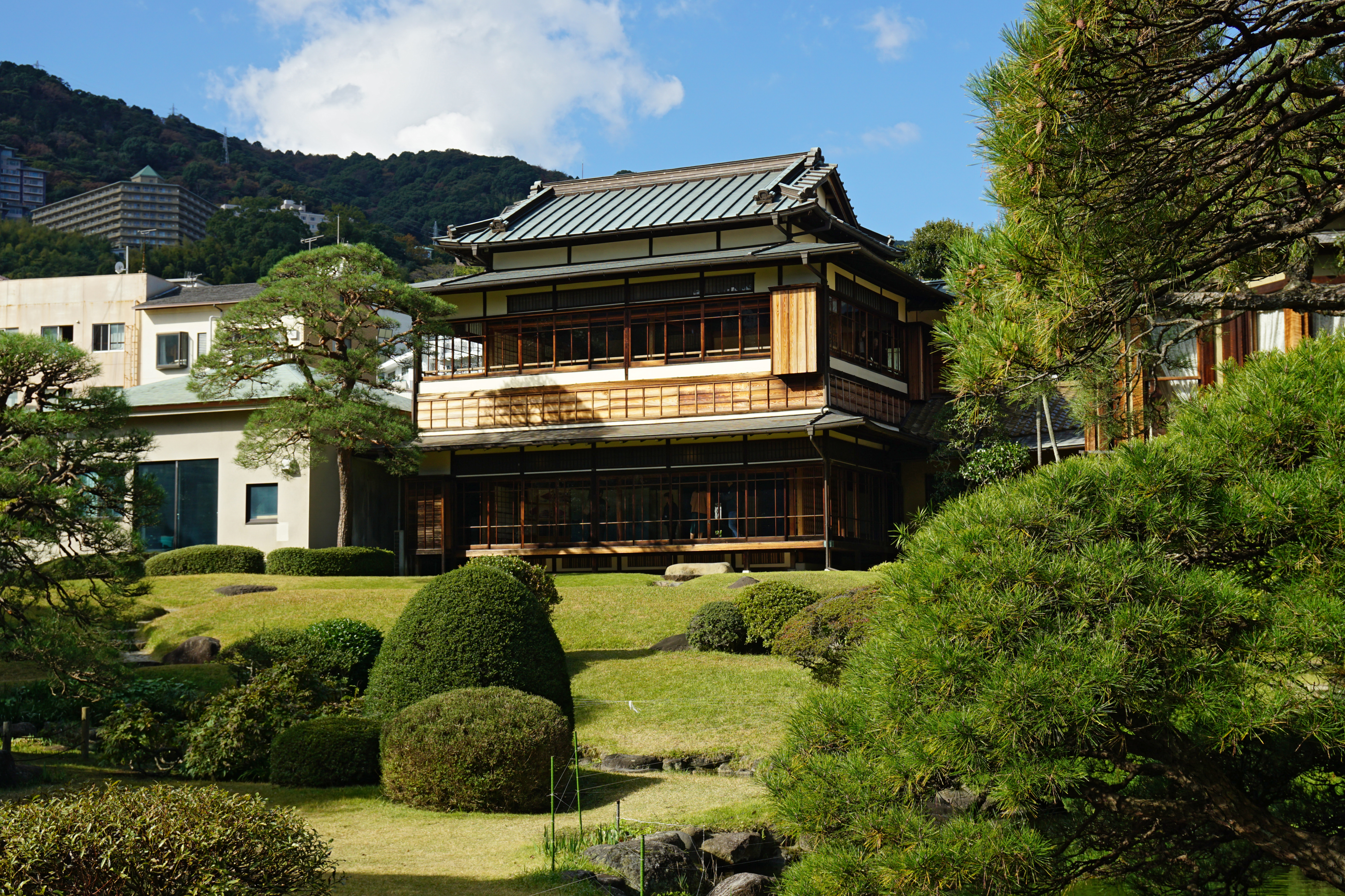 Kiunkaku in Atami, Shizuoka prefecture, Japan.